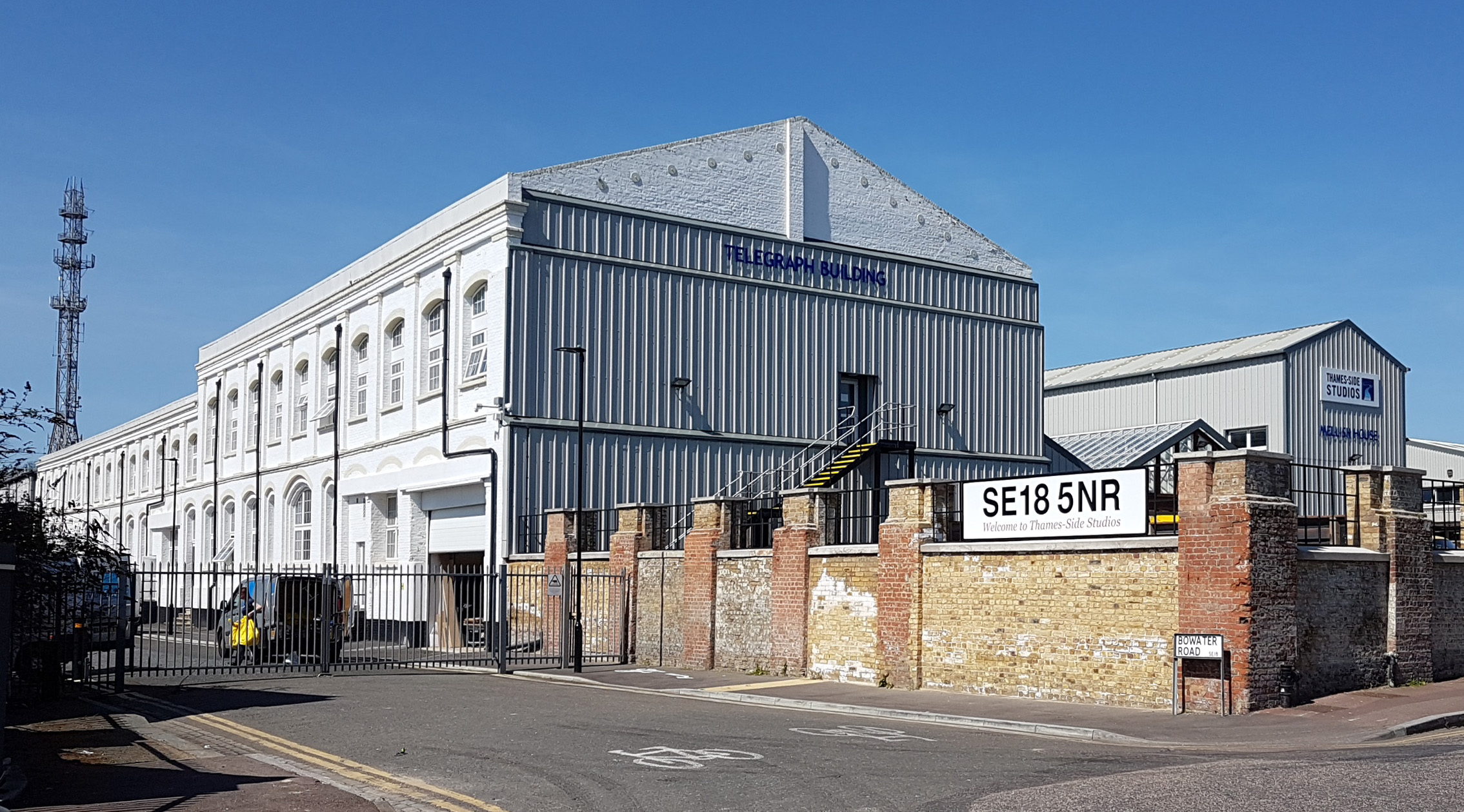 View of the Telegraph Building at the corner of Warspite Road and Bowater Road, Woolwich, London, UK. The building was part of Siemens Brothers from the 1890s until 1968. It is now part of Thames-Side Studios